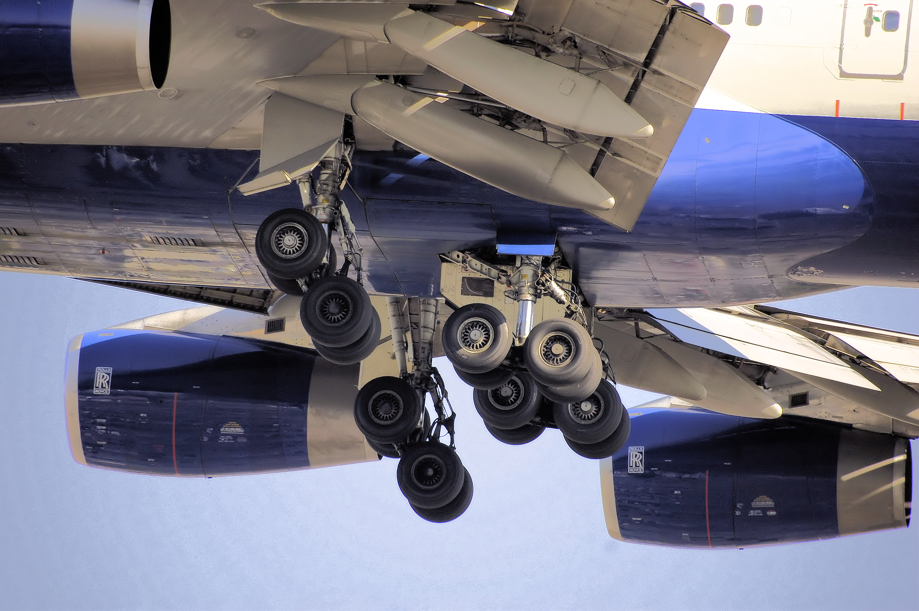 British Airways Boeing 747-400 (G-CIVX) main undercarriages during landing at London Heathrow Airport, England.